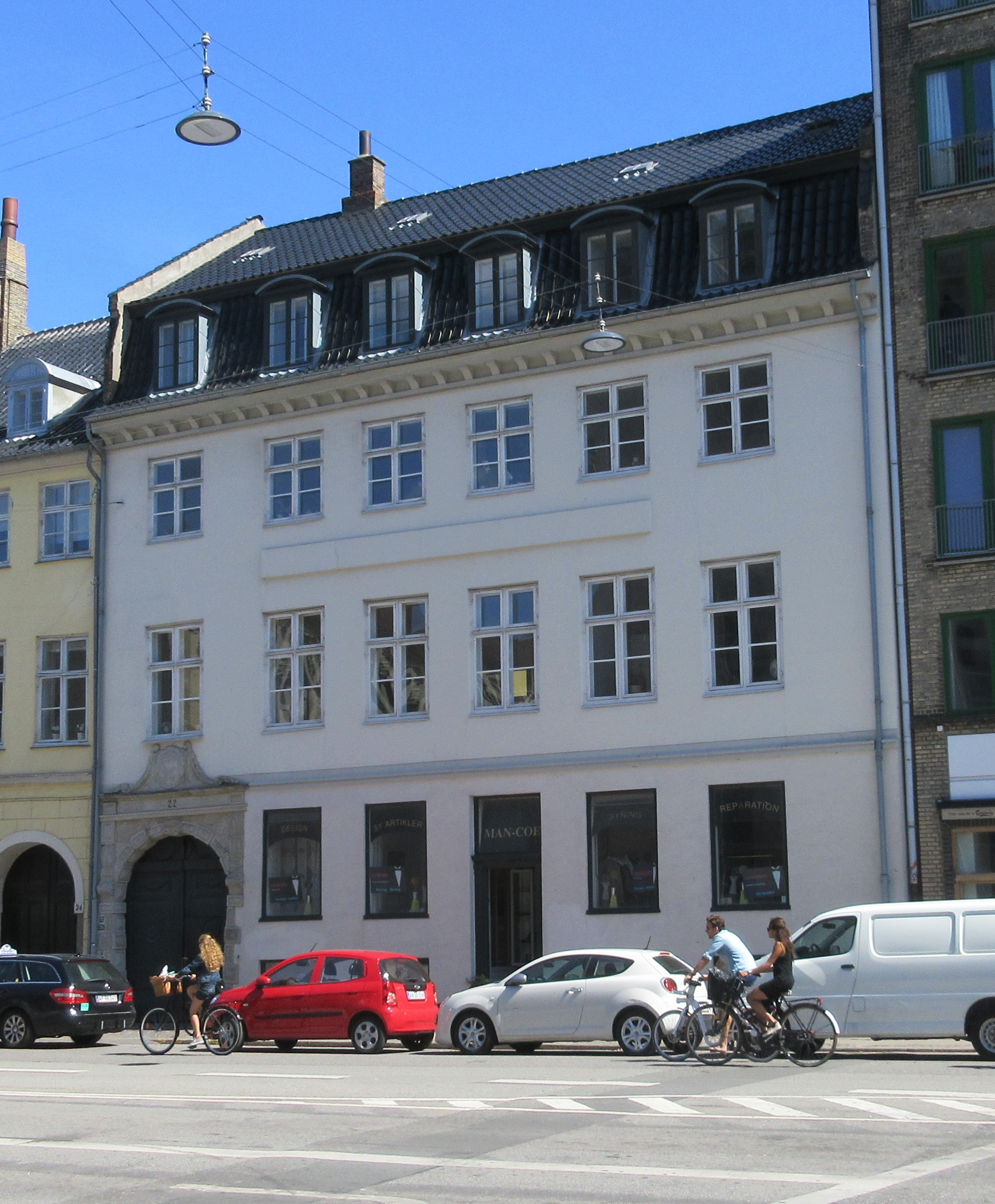 Cort Adelers Gård in Strandgade in Christianshavn, Copenahgen, Denmark